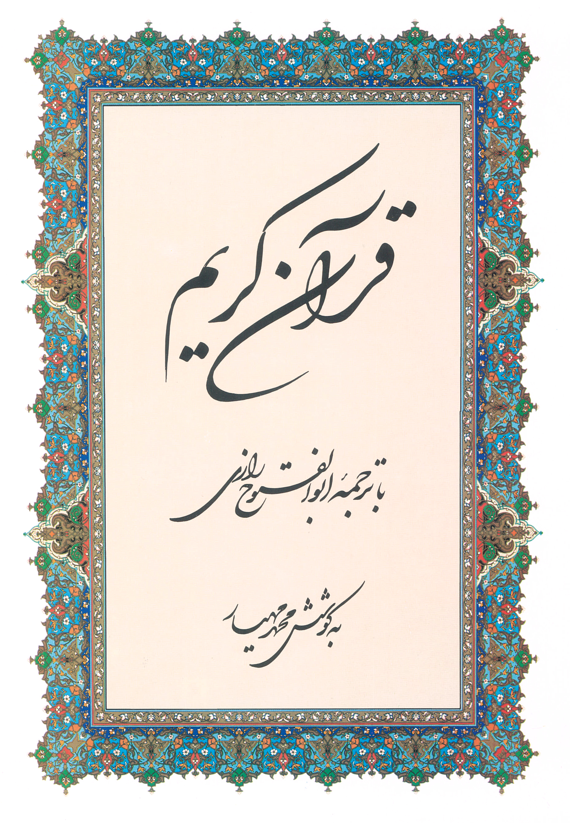 قرآن با ترجمه کهن ابولفتوح رازی